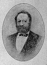 Portrait of Ephraim Luzzatto - Jewish-Italian physician and poet